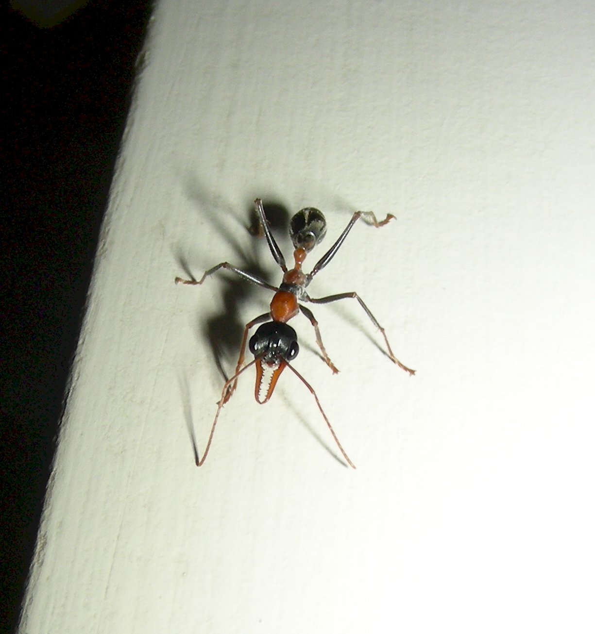 This sucker can give you a very painful bite. I almost stepped on it (with bare feet) in my study.